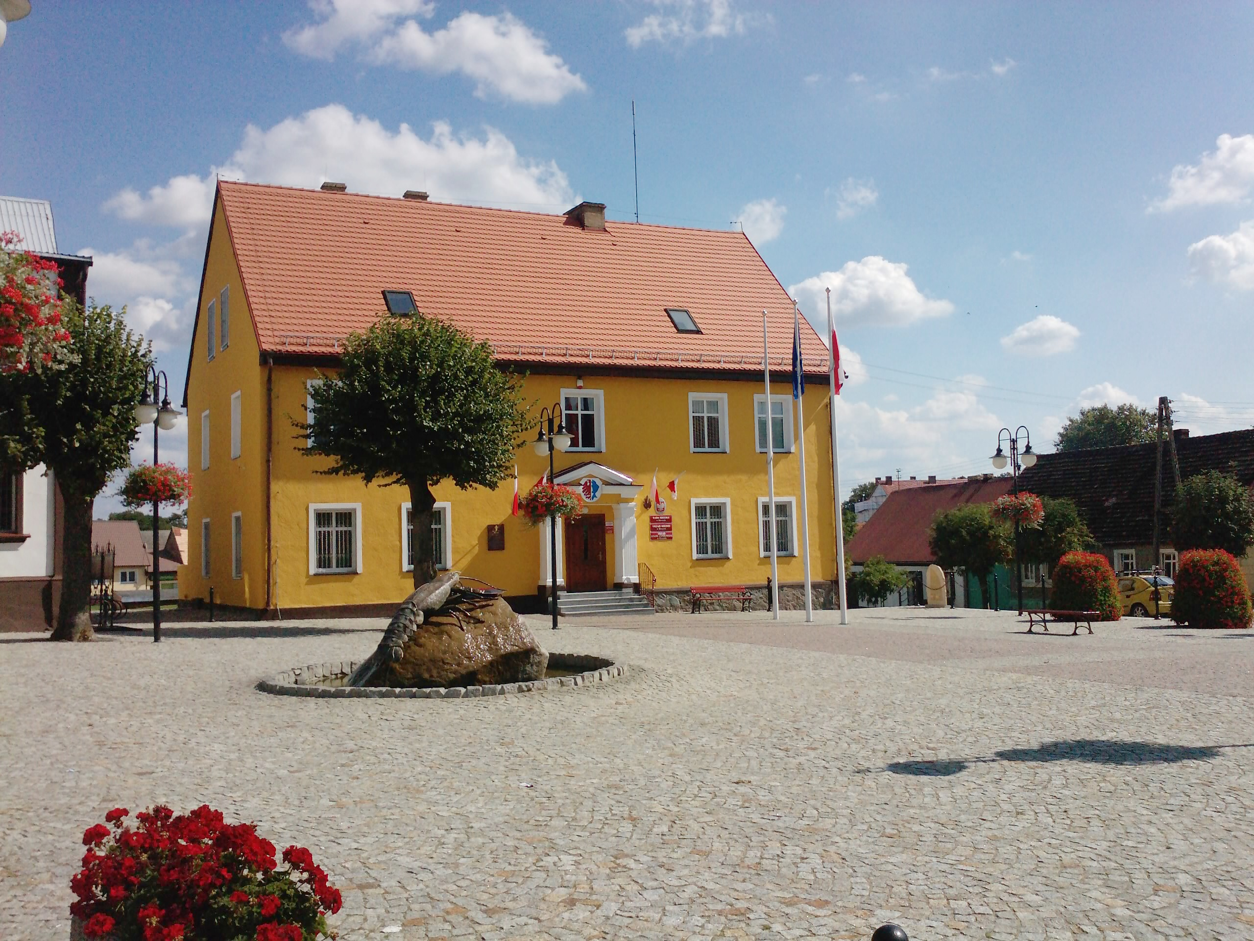 City Center (Plac Wolności) of Moryń in the West Pomeranian Voivodeship in Poland with town hall an cancer memorial